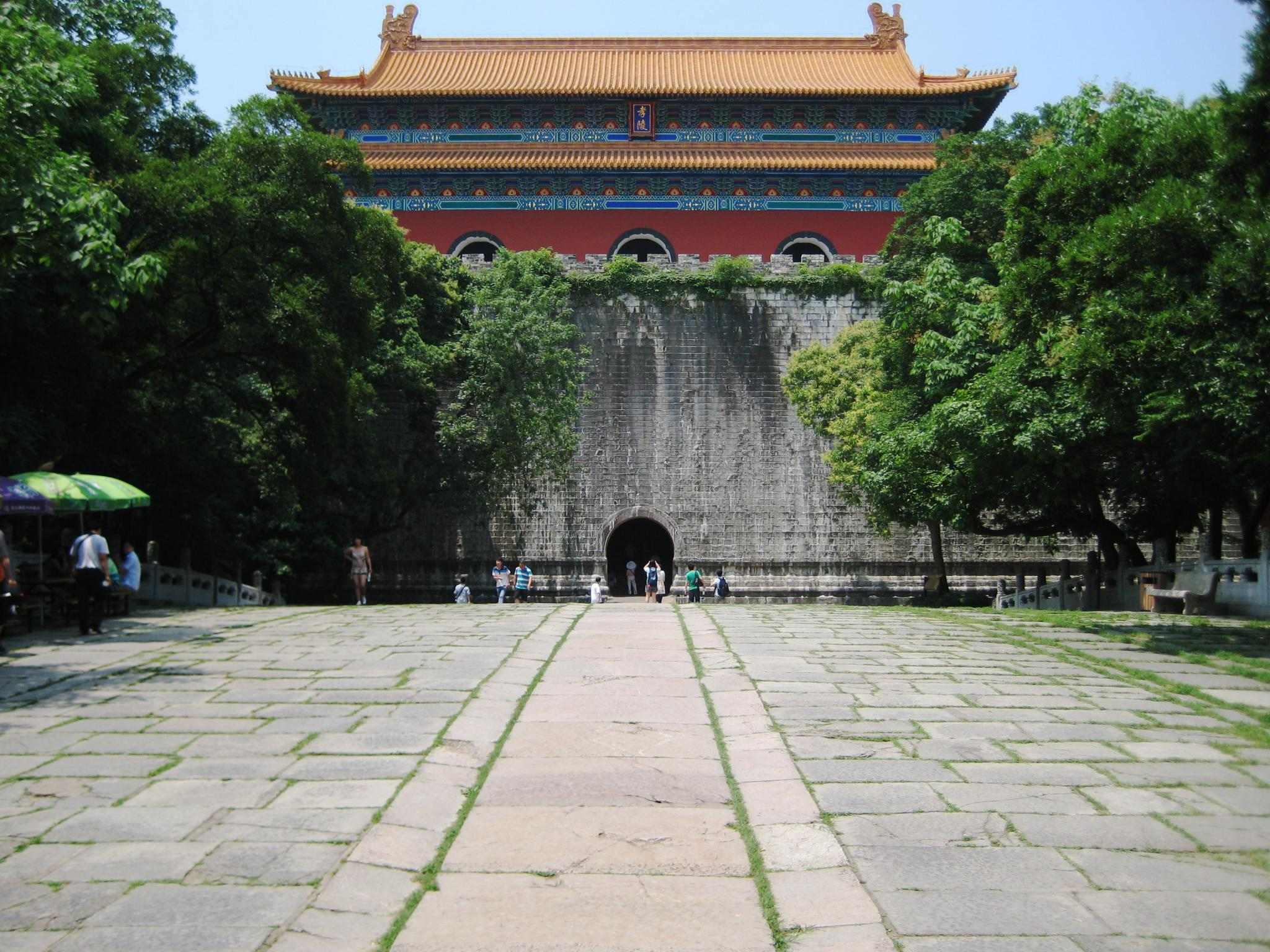 The main structure (Ming Lou / Soul Tower) of the Ming Xiaoling Mausoleum in Nanjing